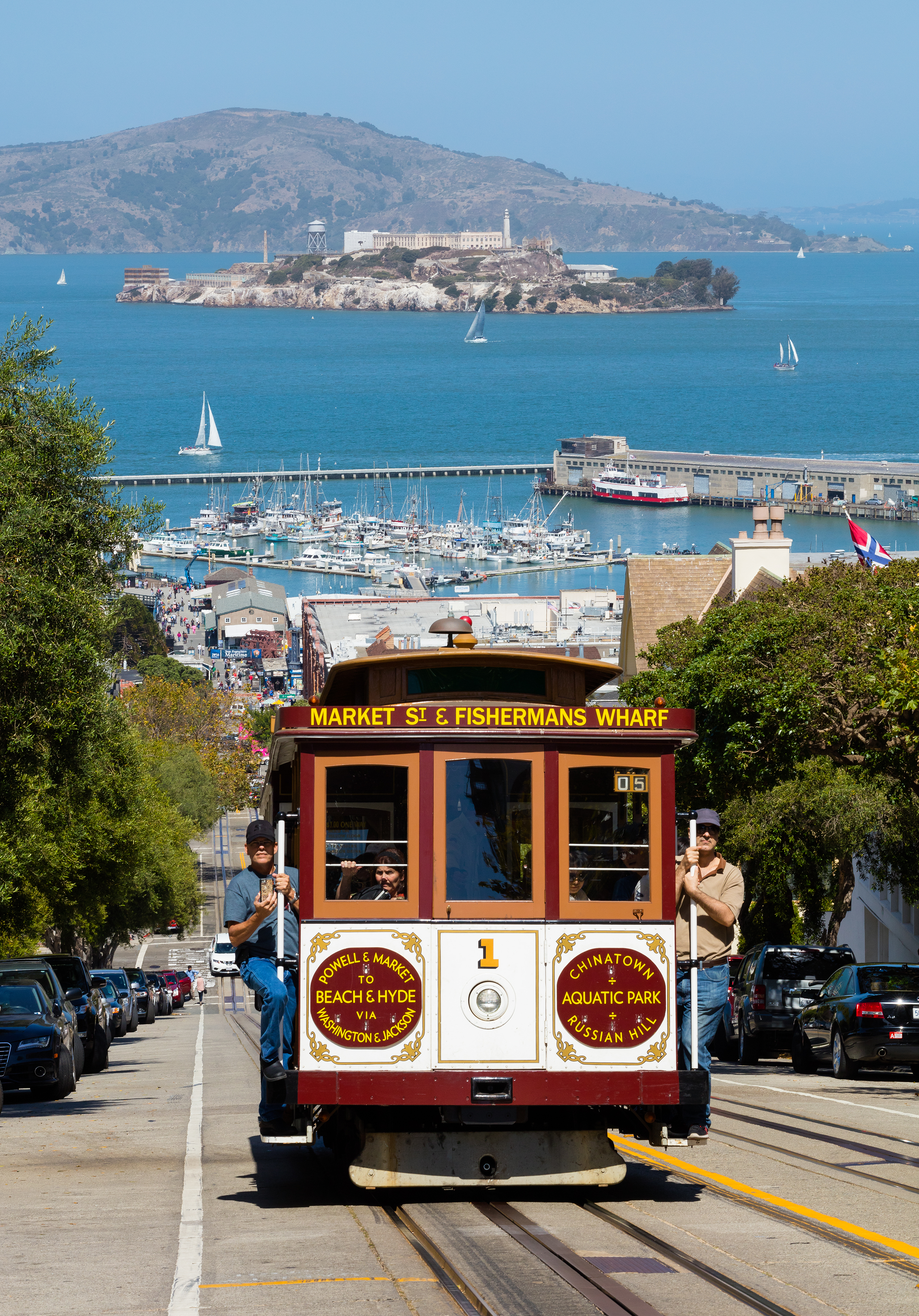 SF cable car number 1 with Hyde Street Pier and Alcatraz Island in San Francisco, California, USA.